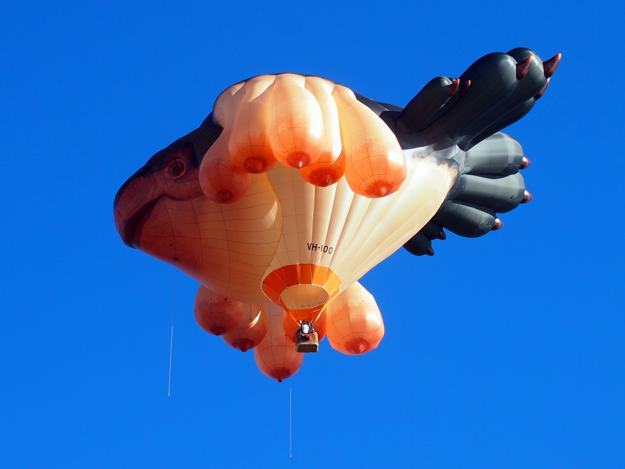 Side view of the balloon "The Skywhale" designed by Patricia Piccinini during its first flight over Canberra